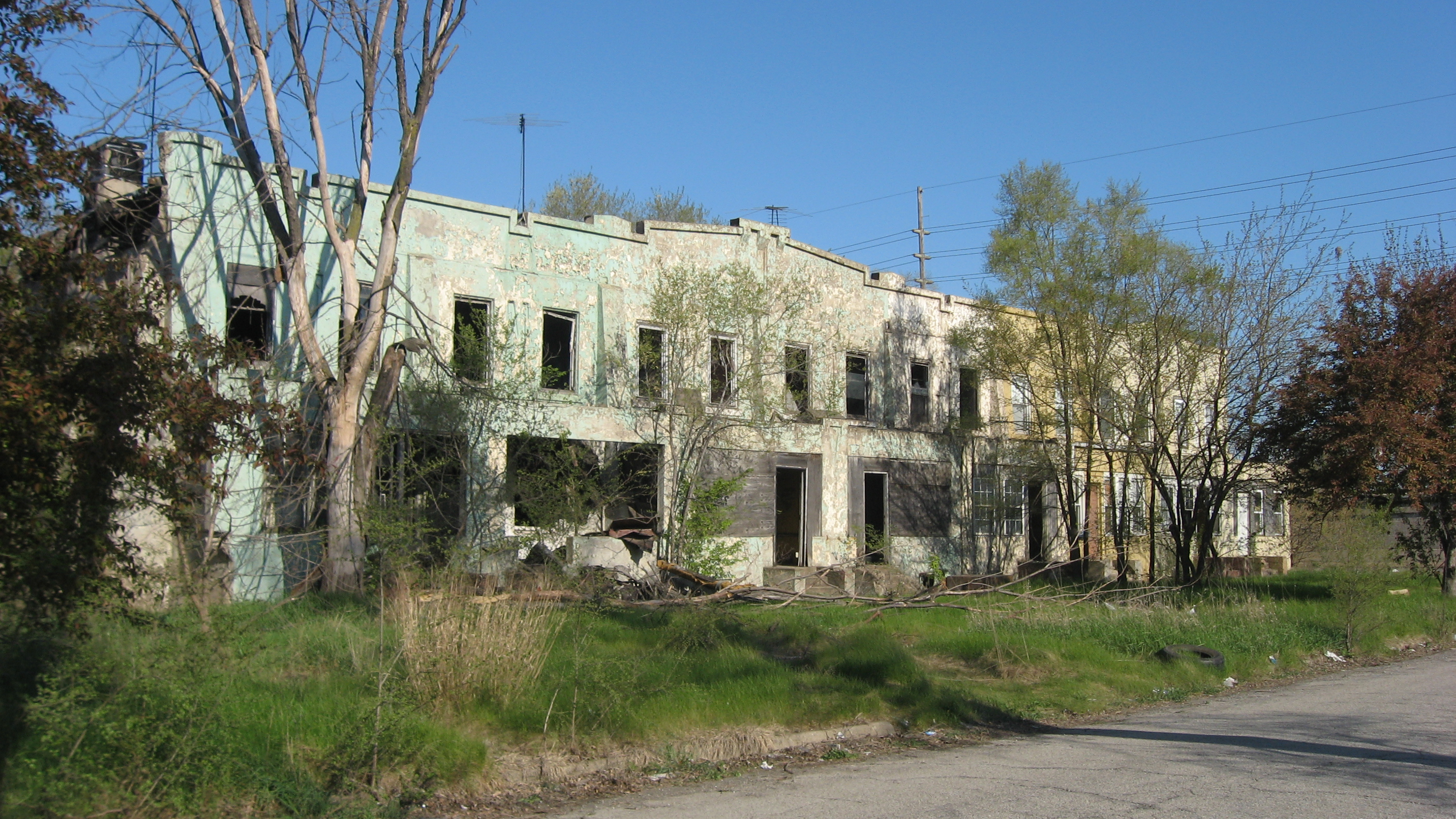 Looking northward along the houses on the western side of the 300 block of Monroe Street in Gary, Indiana, United States. The houses pictured are part of the Monroe Terrace Historic District, a historic district that is listed on the National Register of Historic Places.